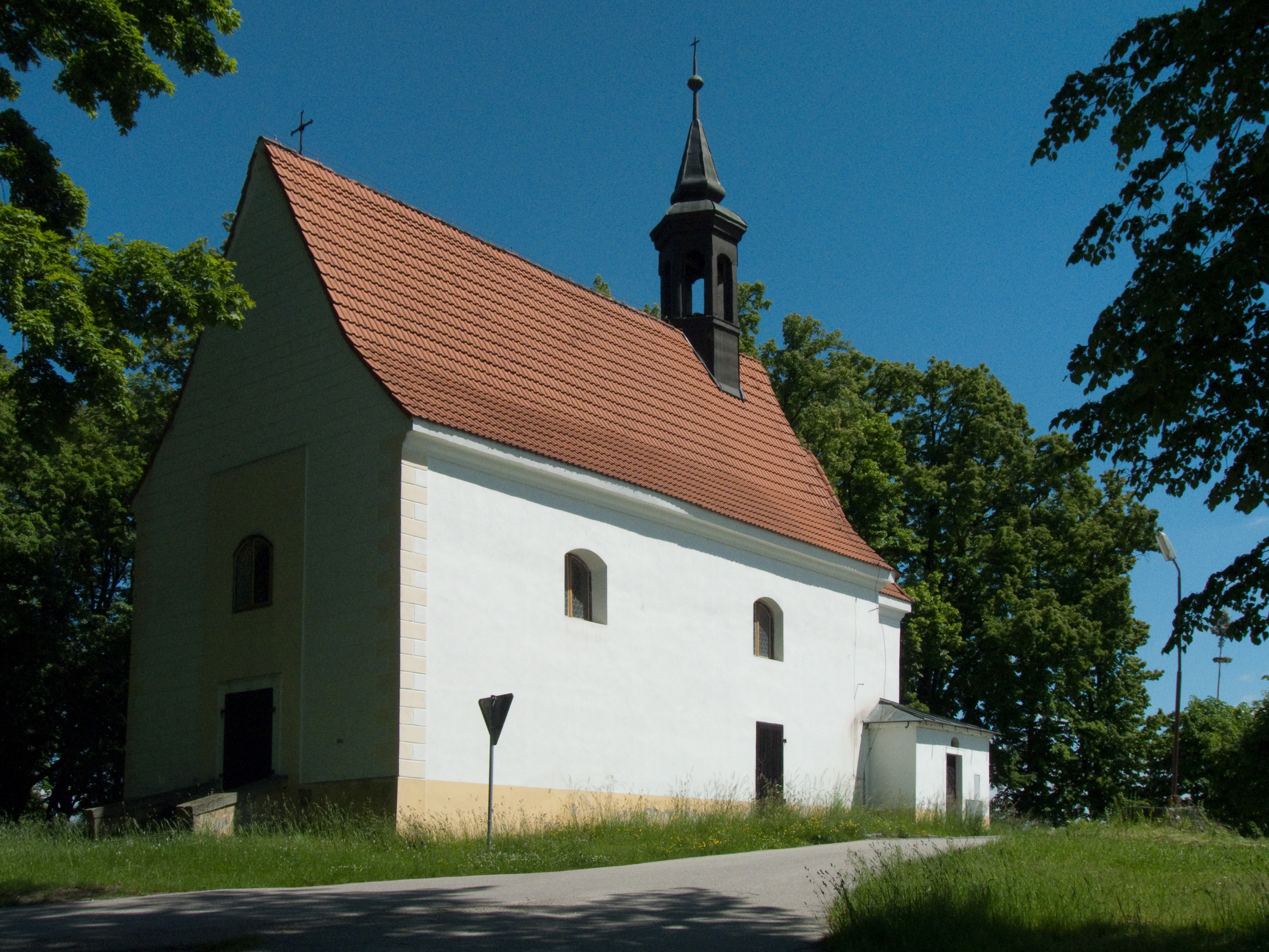 St. Anne Church in the village of Přehořov, Tábor district, Czech Republic